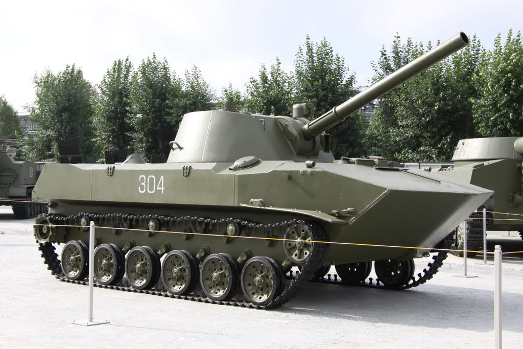 Verkhnyaya Pyshma Tank Museum 2011